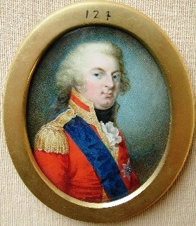 Portrait of Prince Frederick, Duke of York and Albany (1763-1827)